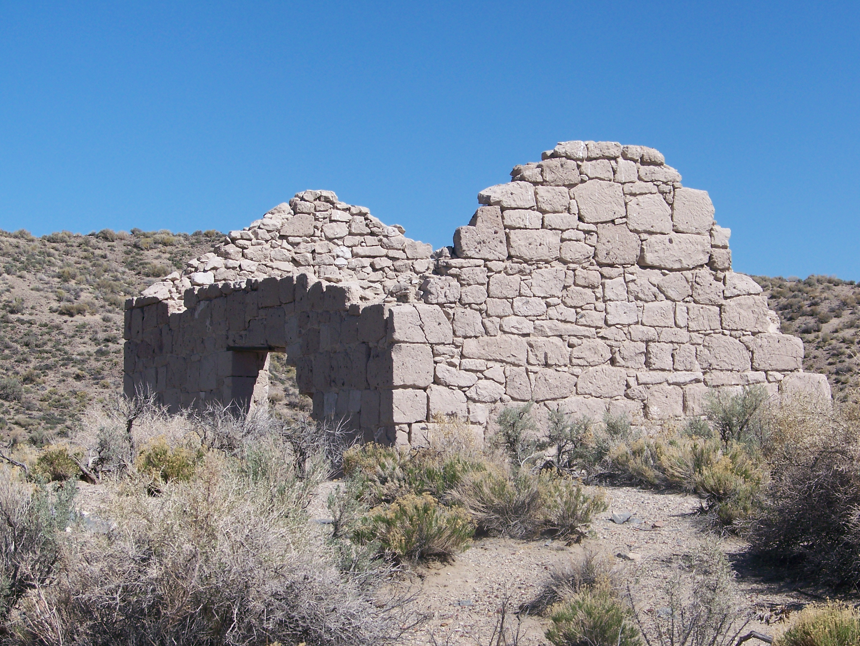 Palmetto, Nevada ghost town. An old building that was 2 story.